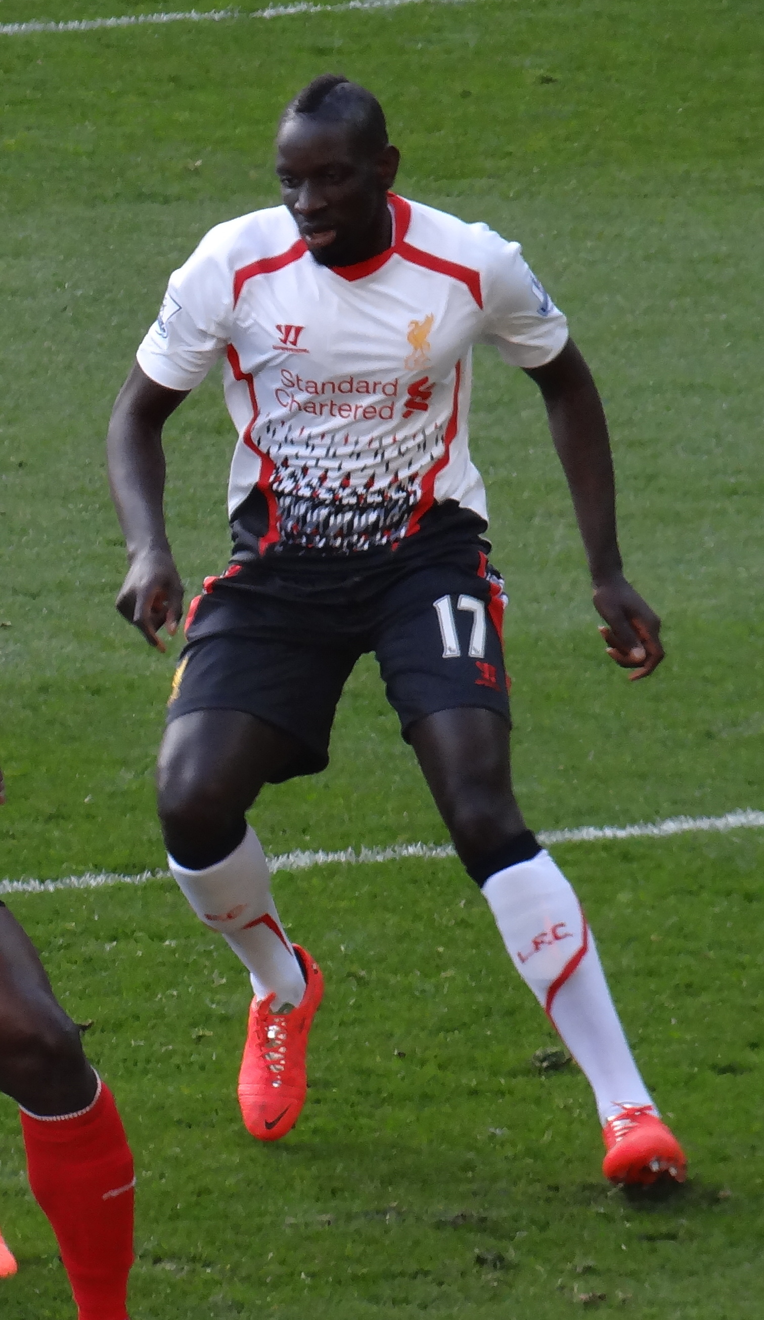 Mamadou Sakho playing for Liverpool against Cardiff City in 2014.